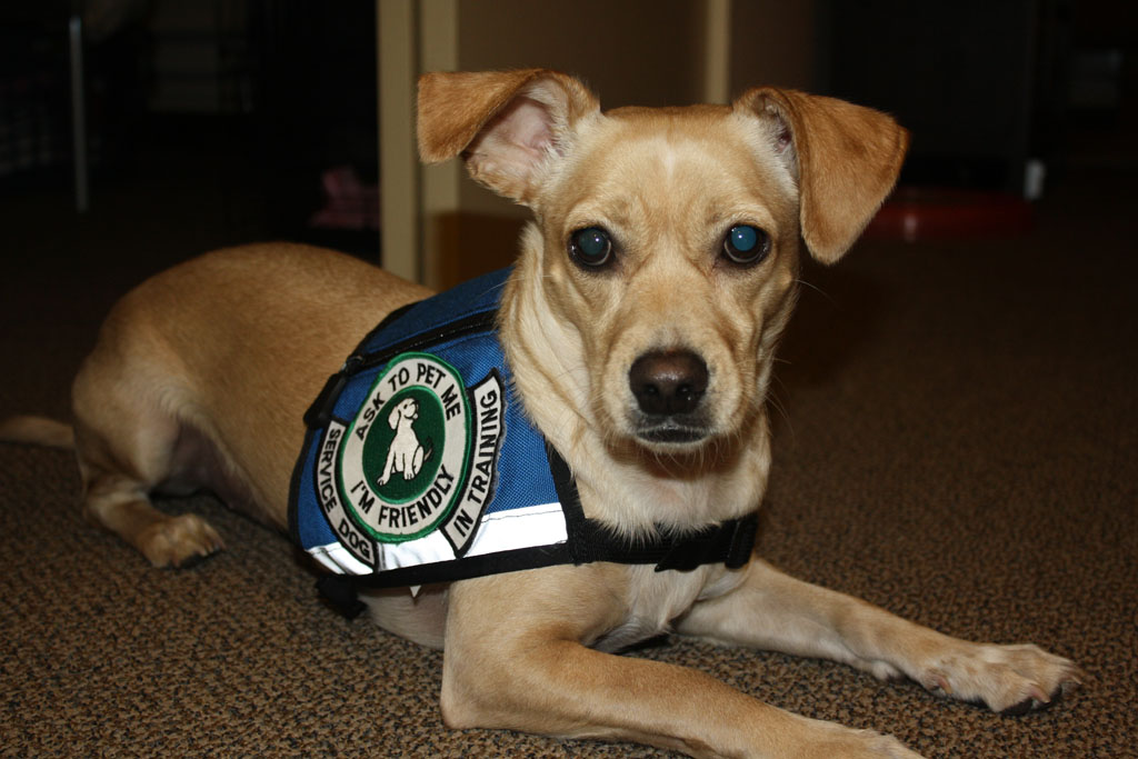 Psychiatric Service Dog In Training